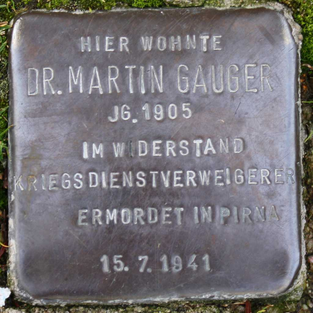 "Stolperstein" (stumbling block), Martin Gauger, Wuppertal, Hopfenstraße 6, Germany